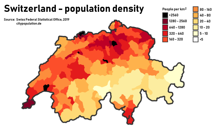 A map representing population density in Switzerland by district, as of 2019.